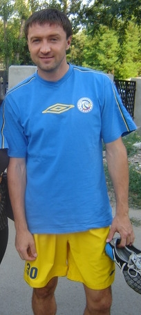 Russian footballer Mikhail Osinov on training practice in FC Rostov.